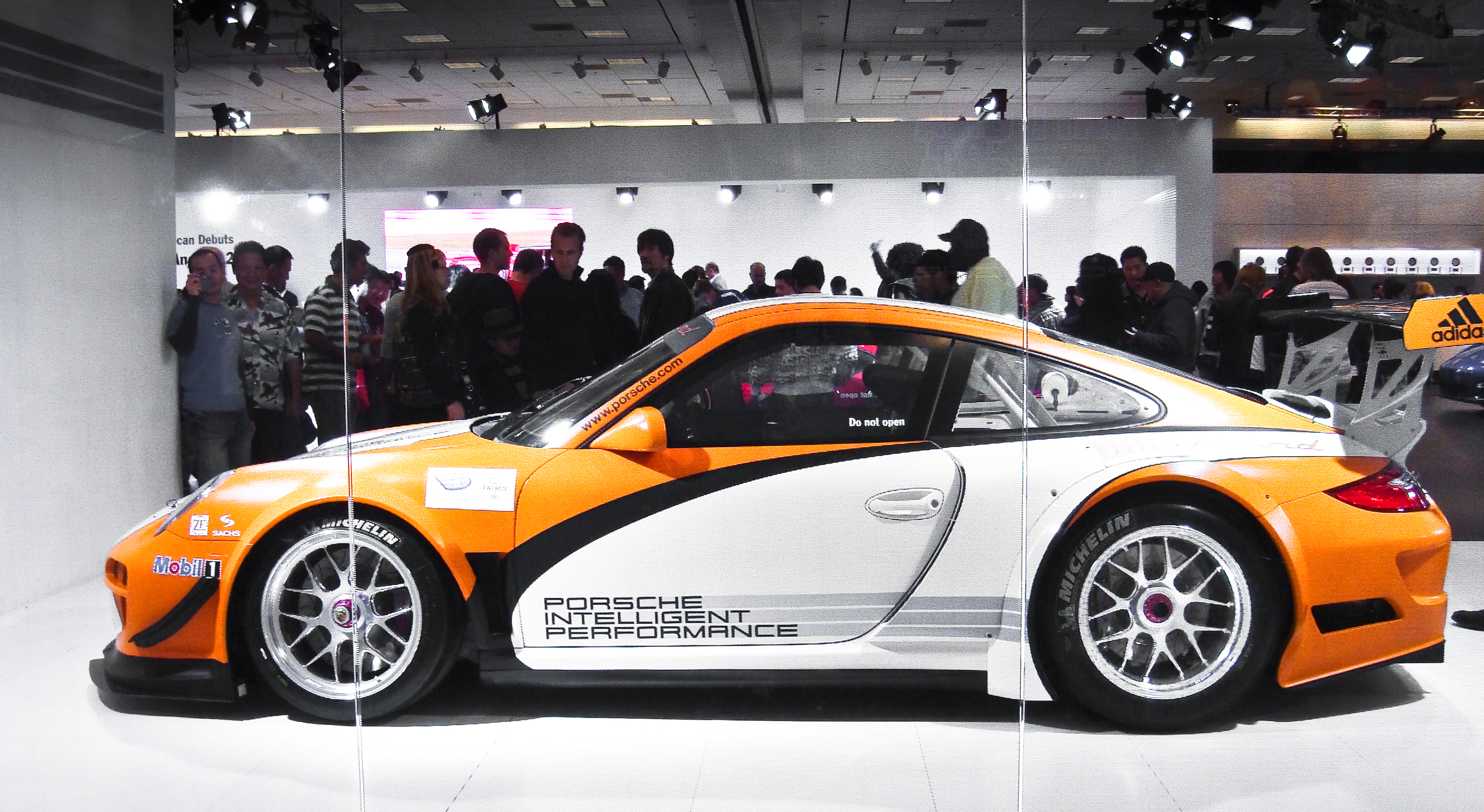 Along with the 918 Spyder, Porsche brings its world-class hybrid technology into the 911 GT3 R Hybrid. This hybrid will feature two electric motors on the front axle, each supplementing 60 kilowatts to the Porsche signature 480hp naturally aspirated rear engine.